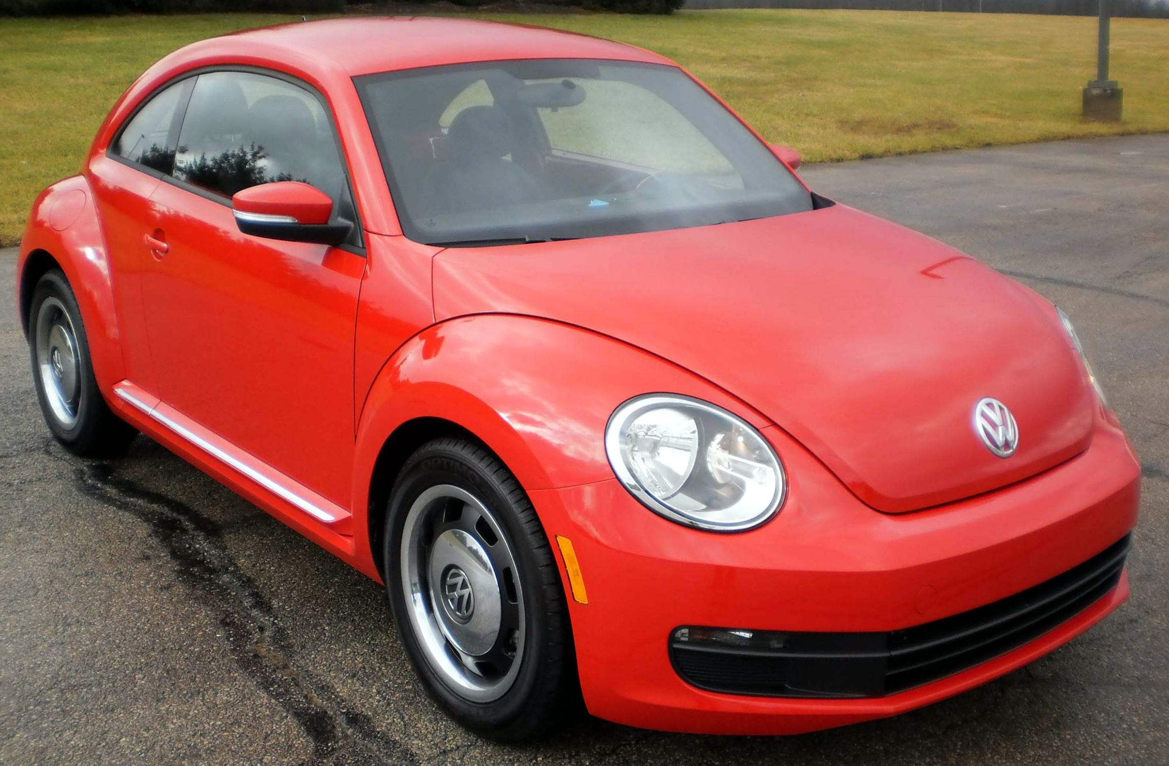 2012 Volkswagen Beetle photographed in USA.